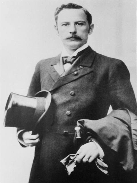 Rafael Yglesias Castro, president of Costa Rica 1898-1902. Circa 1900.